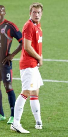 Manchester United footballer Phil Jones in 2011 MLS all-stars game in the New York, USA.